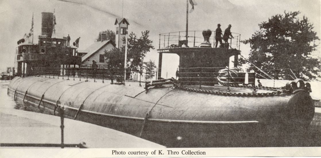 The whaleback steamer SS Charles W. Wetmore in the Weitzel Lock (now removed)ni of the Soo Locks, headed downbound on the first leg of a journey to London, England via the St Lawrence River, carrying 95,000 bushels of wheat. She will not return to the Great Lakes. This image is taken from the Upper Peninsula Digitization Center Collections, image provenance page, image url, and is believed to be in the public domain, as the original photograph was taken in 1891.